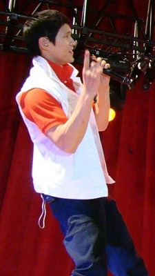 Harry Shum, Jr., in character as Mike Chang performing "Don't Stop Believin' " on the Glee Live! In Concert! 2011 tour.